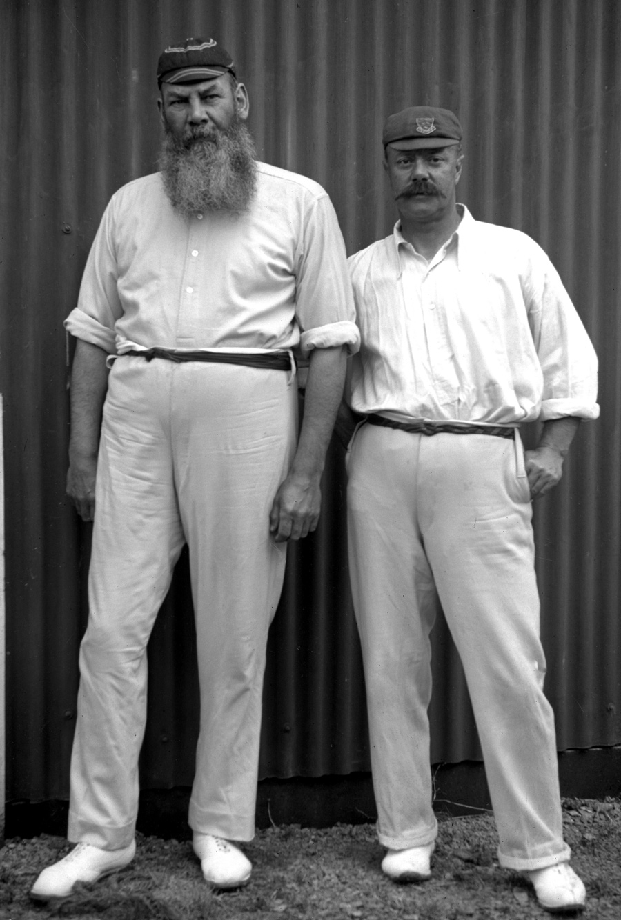 W.G. Grace and Billy Murdoch.